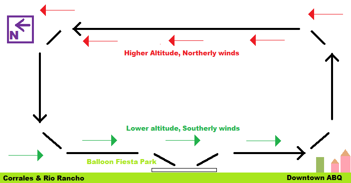 The weather pattern for the "Albuquerque Box" effect when conditions are optimal, determined by the Dawn Patrol. This image shows the optimal track the balloons follow. In some instances, balloons were able to land and depart again on the same day (a rare occurrence for ballooning). In More recent years, the box effect has been less prominent, with winds being all north or south. Due to FAA restrictions when flying south , balloons must land before I-40 (most likely in homeowners yards or parking lots) or continue flying to the Albuquerque International Sunport. they cannot fly south of the airport due to the Isleta Reservation. When flying north or flying south landing before the park, Corrales provides excellent landing spots due to the few houses and large yards. landing in Rio Rancho is harder however due to the rapid housing expansion and the city lies on a mesa, higher than the park. Balloonists cannot fly towards the mountains due to the Sandia Reservation. Watching clouds roll into Albuquerque throughout the year also show the box effect. Clouds move in at a lower altitude, then get pushed up and over itself due to the Sandia Mountains.